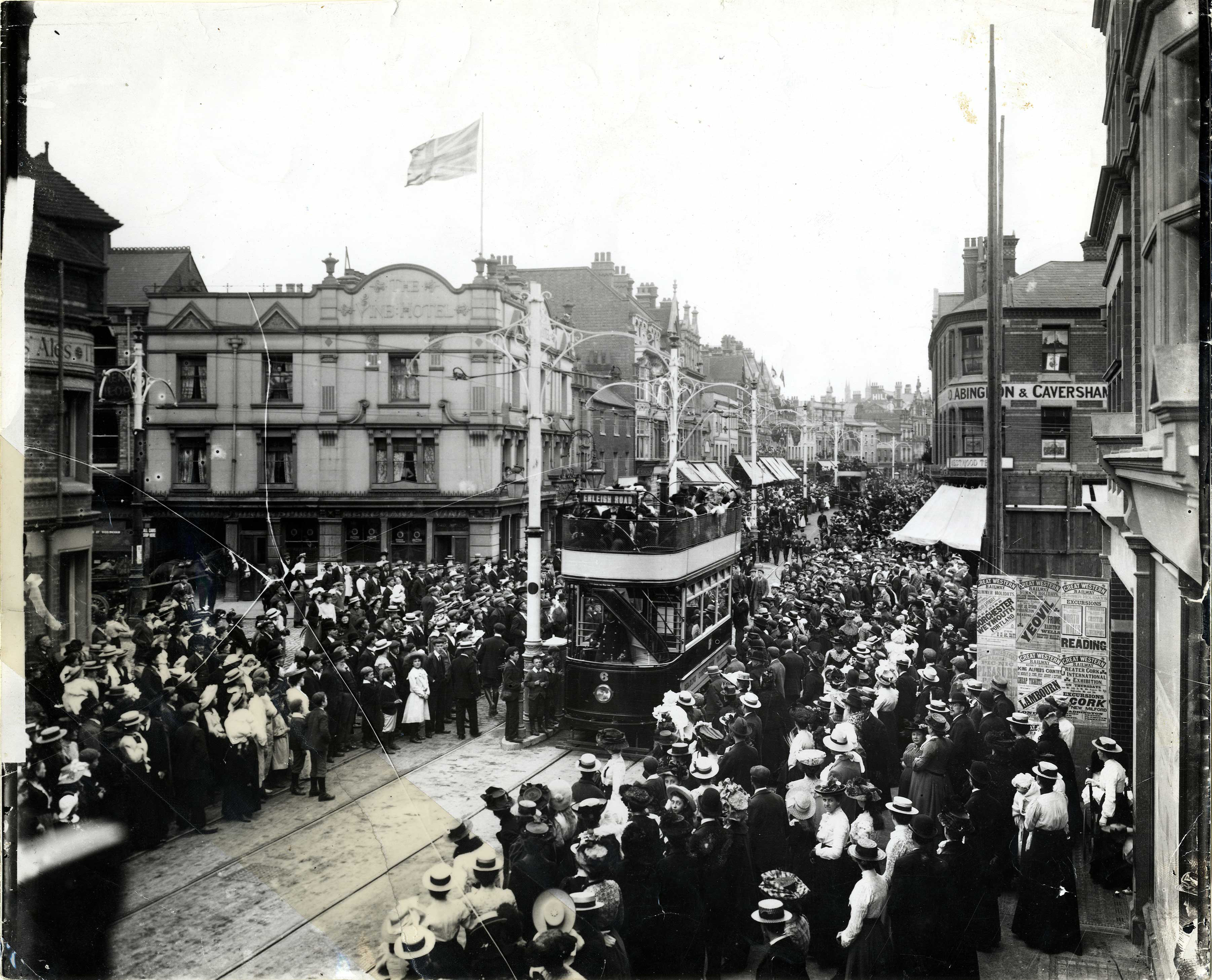 Reading Corporation Tramways. Electric tram No. 6 has just crossed the junction, heading westwards along Oxford Road. The destination blind reads "Erleigh Road", which is not in this direction, and the trolley-pole appears to have come off the wire. Photograph taken on 22 July 1903, the first day of operation for the electric cars, and the upper deck is occupied by gentlemen in top hats and ladies in large flowery hats - presumably the civic dignitaries. Crowds throng the streets. The Vine Hotel, at No. 74 Broad Street, is to the left, and the grocer's shop of Baylis and Company, 75 and 76 Broad Street, is to the right. In front of Baylis's is a hoarding with advertisements for excursions on the Great Western Railway. 1900-1909 : photograph by Walton Adams, from a cracked glass plate.